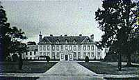 Avenue of Kenmare House (1726)